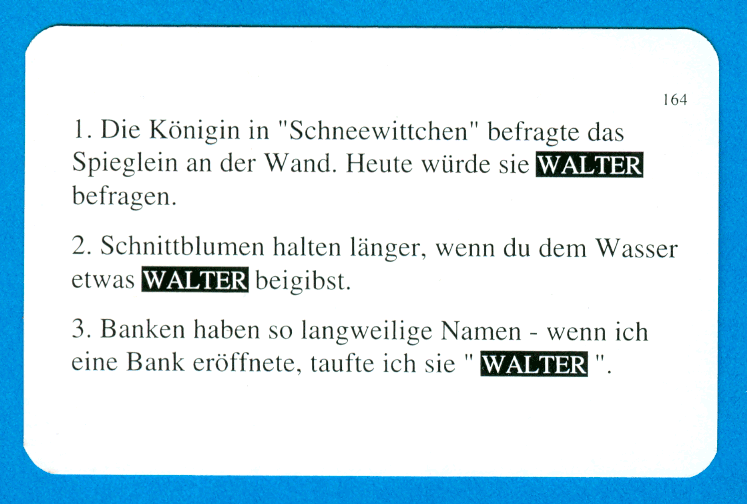 Card of game "Der wahre Walter"